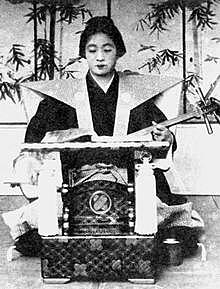 Toyotake Roshō (1874-1930) was a Japanese music singer.